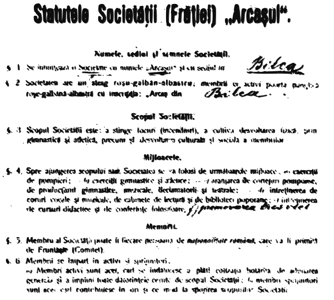 First page of the statute regulating the Arcași chapter in Bilca, Austrian Bukovina, 1909. Fragment has template detailing symbols and general purposes of the society (firefighting, physical culture, civic culture), with handwritten note specifically mentioning the promotion of tesvie (temperance movement).